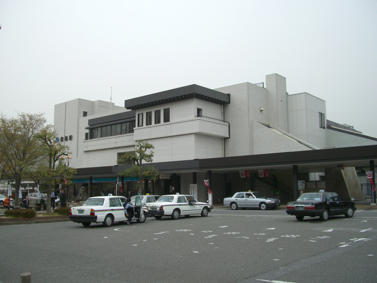 West Japan Railway Tōkaidō Main Line（Biwako Line） Hikone Station Building（West Gate）